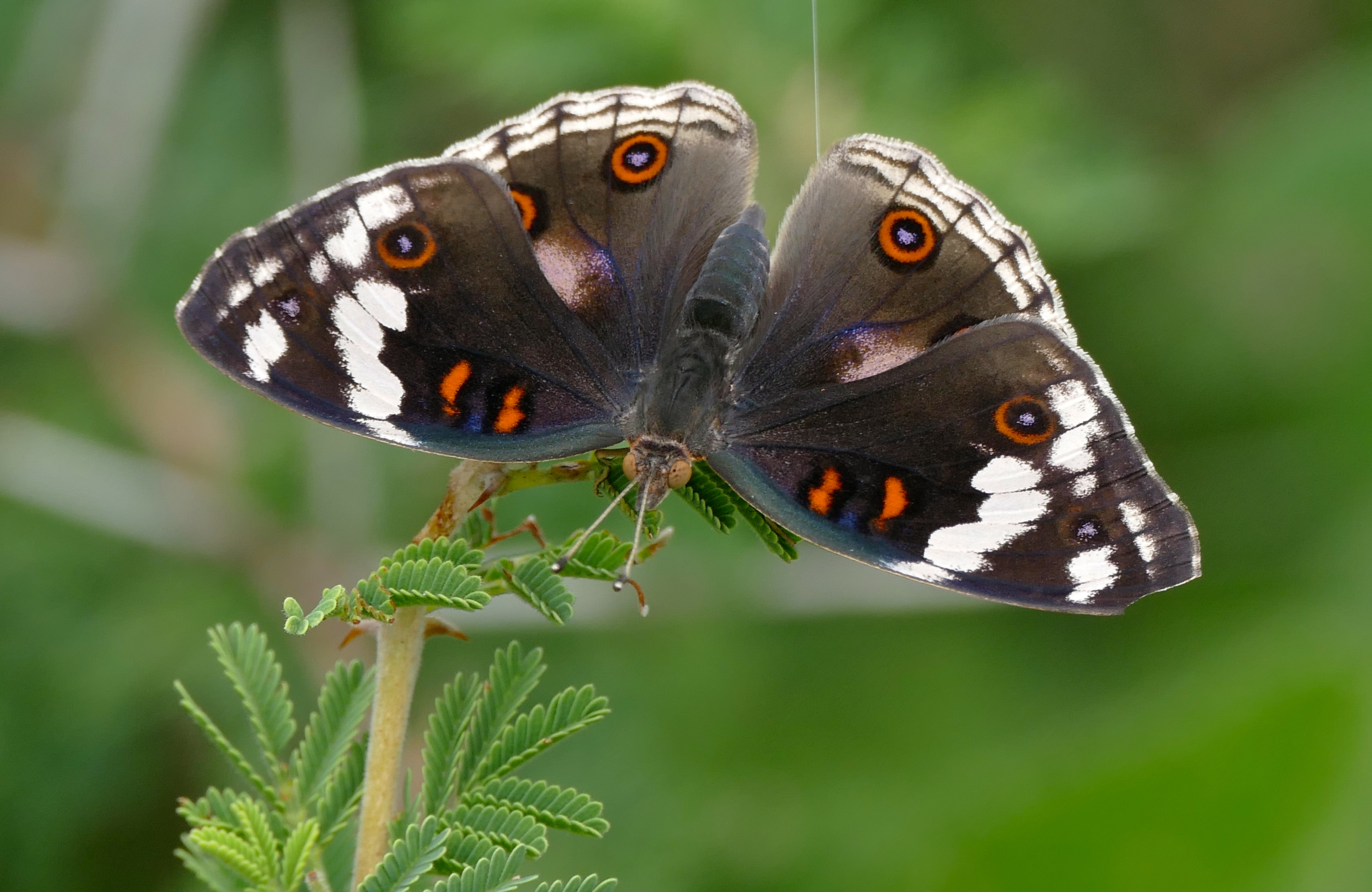 Sweni Hide, S37 Road East of Satara, Kruger NP, SOUTH AFRICA